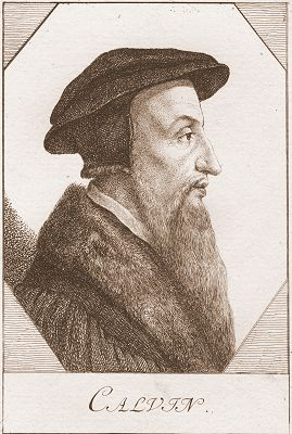 John Calvin